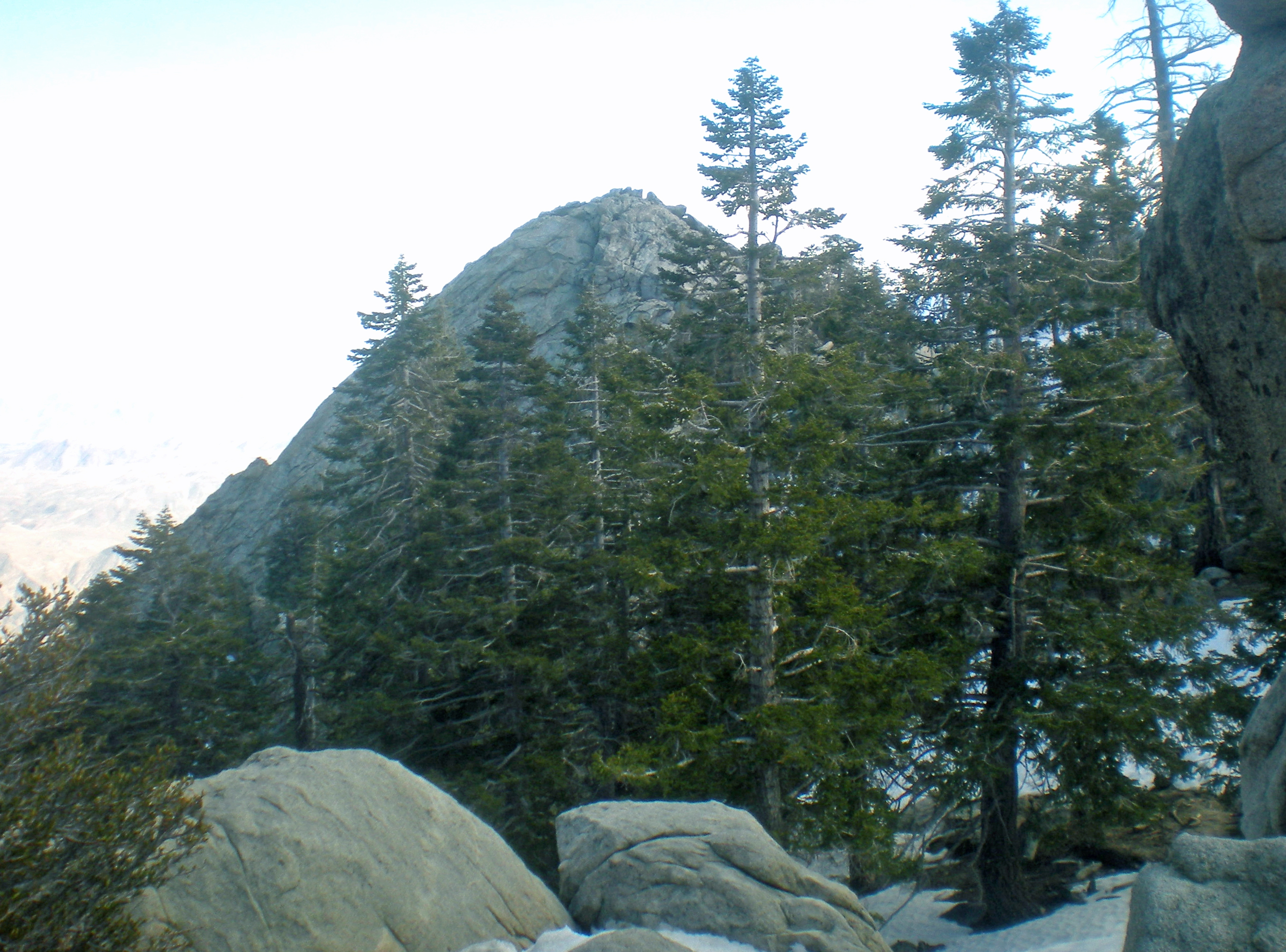 Abies concolor subsp. lowiana. Mt. San Jacinto State Park, California, 33°48'32"N 116°38'13"W, 2585m altitude.